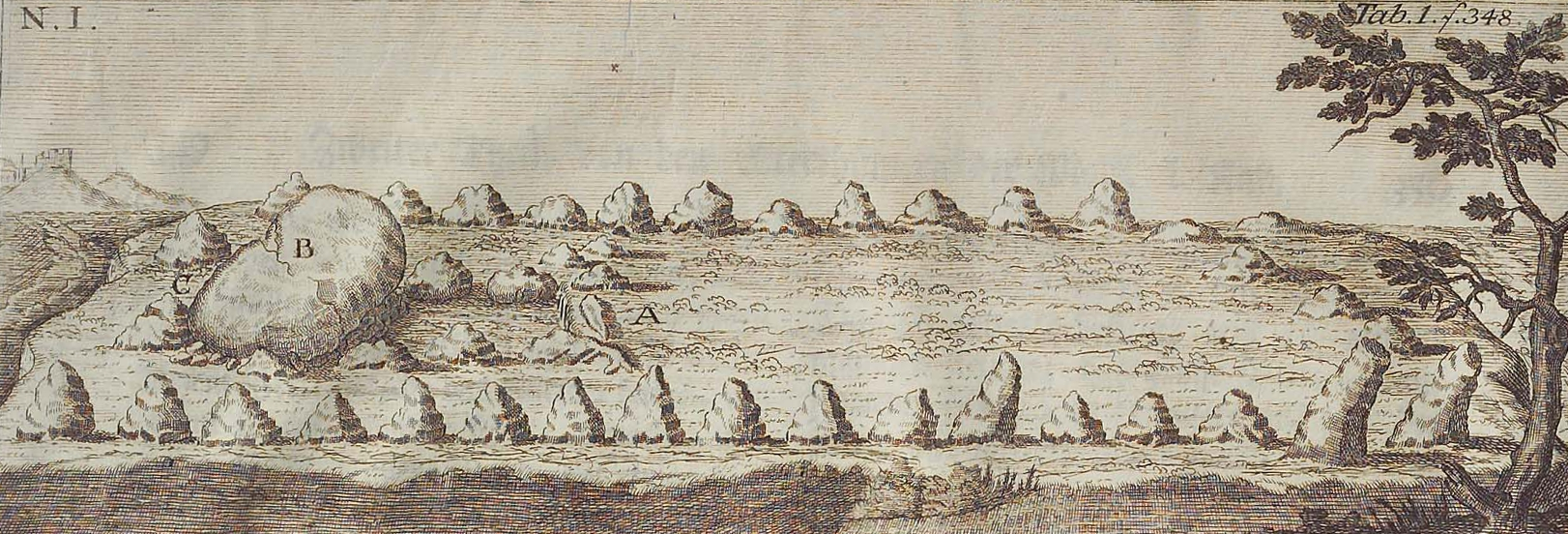 Dolmen Beesewege, depicted in Johann Christoph Bekmann, Bernhard Ludwig Bekmann: Historische Beschreibung der Chur und Mark Brandenburg nach ihrem Ursprung, Einwohnern, Natürlichen Beschaffenheit, Gewässer, Landschaften, Stäten, Geistlichen Stiftern etc. [...]. Vol. 1, Berlin 1751